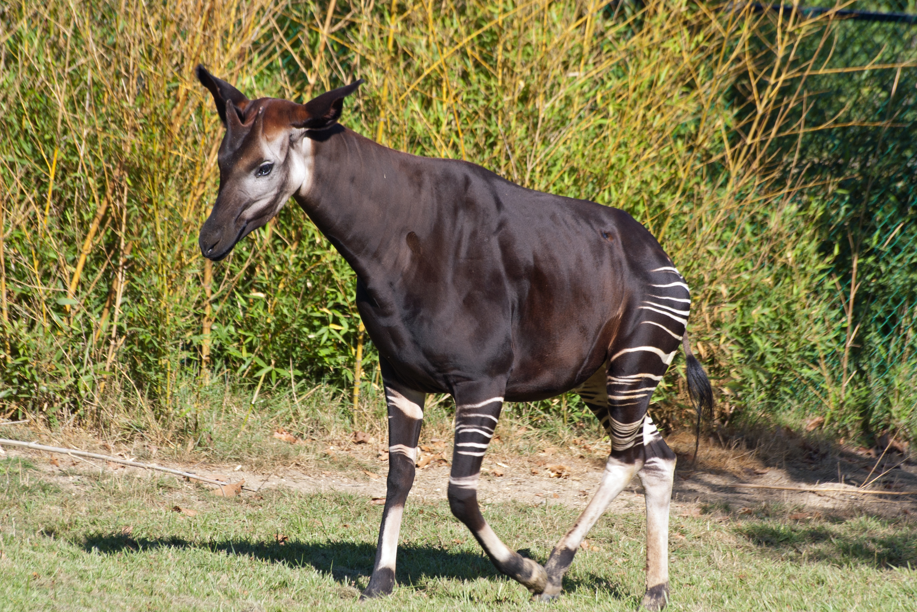 Male Okapi in captivity at ZooParc de Beauval, located in Saint-Aignan-sur-Cher, in the department of Loir-et-Cher, France.